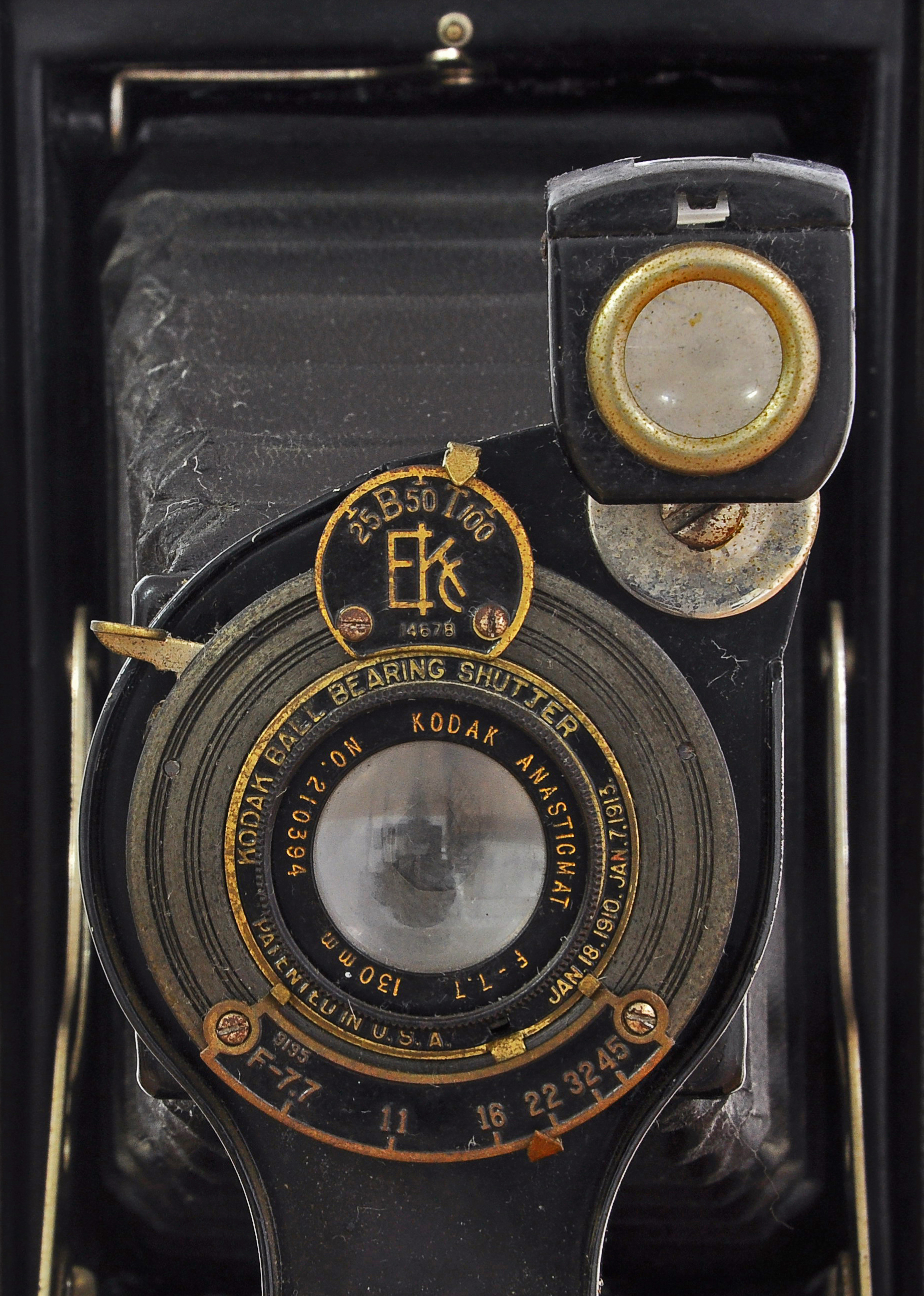 Detail of EKC-Kodak camera